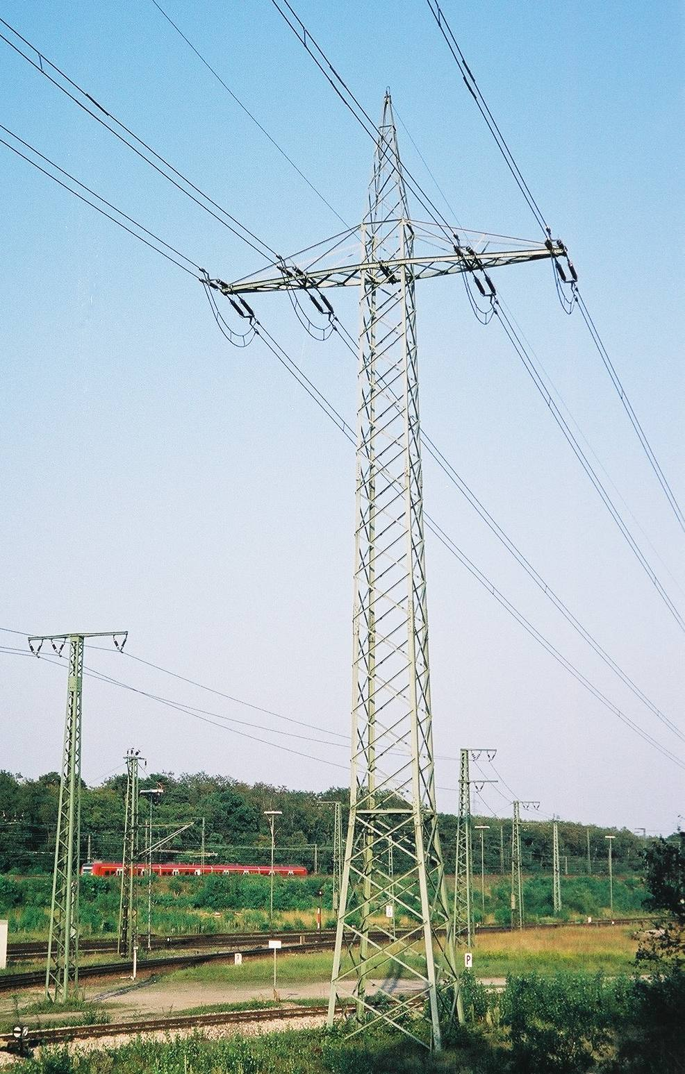 110 kV traction power line, dead-end pylon, Germany.